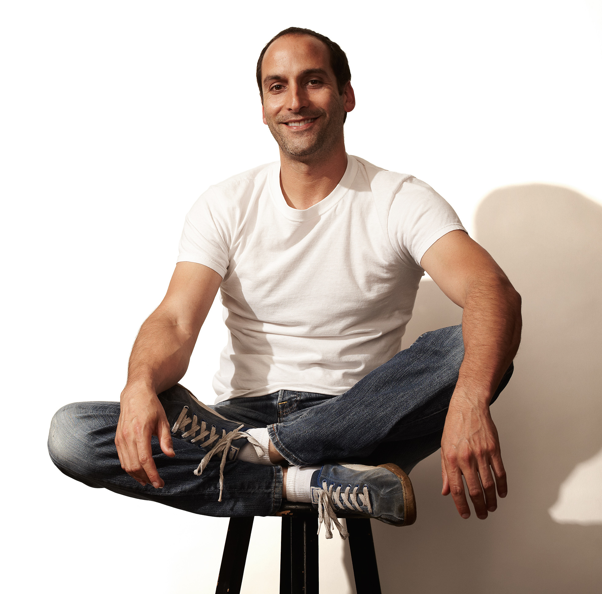 Elan Lee